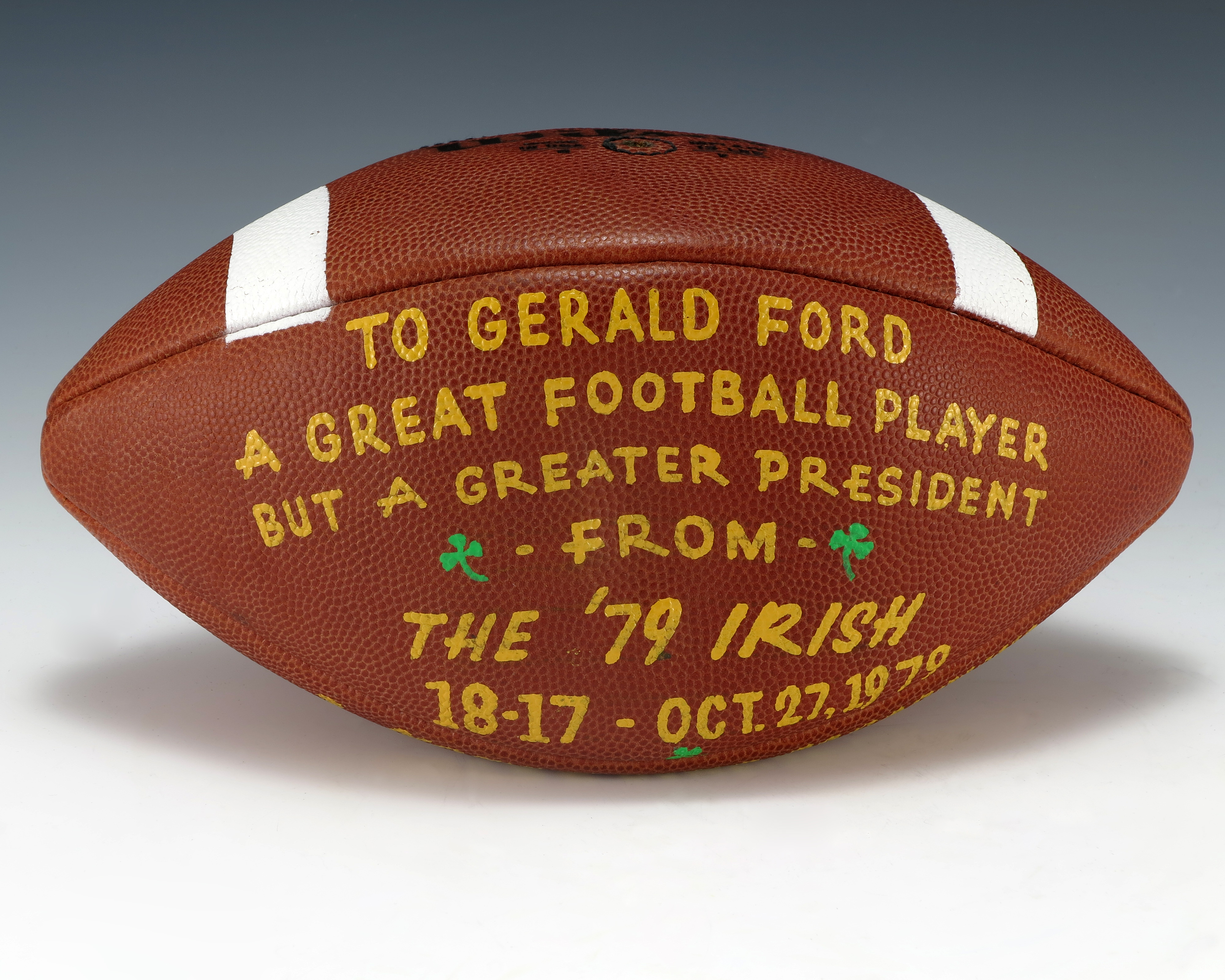 A Wilson brown leather football, which features on one side white stripes on each end, white laces, and black stamped lettering. On the opposing side is a message from the Notre Dame football team to Gerald R. Ford painted in yellow. President Ford attended this game between Notre Dame and South Carolina on Oct 27, 1979 where Notre Dame defeated South Carolina 18-17.